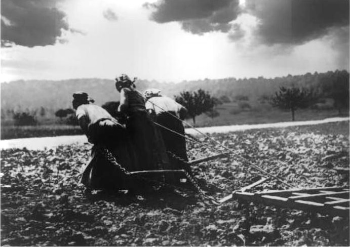 3 women harnessed to plow